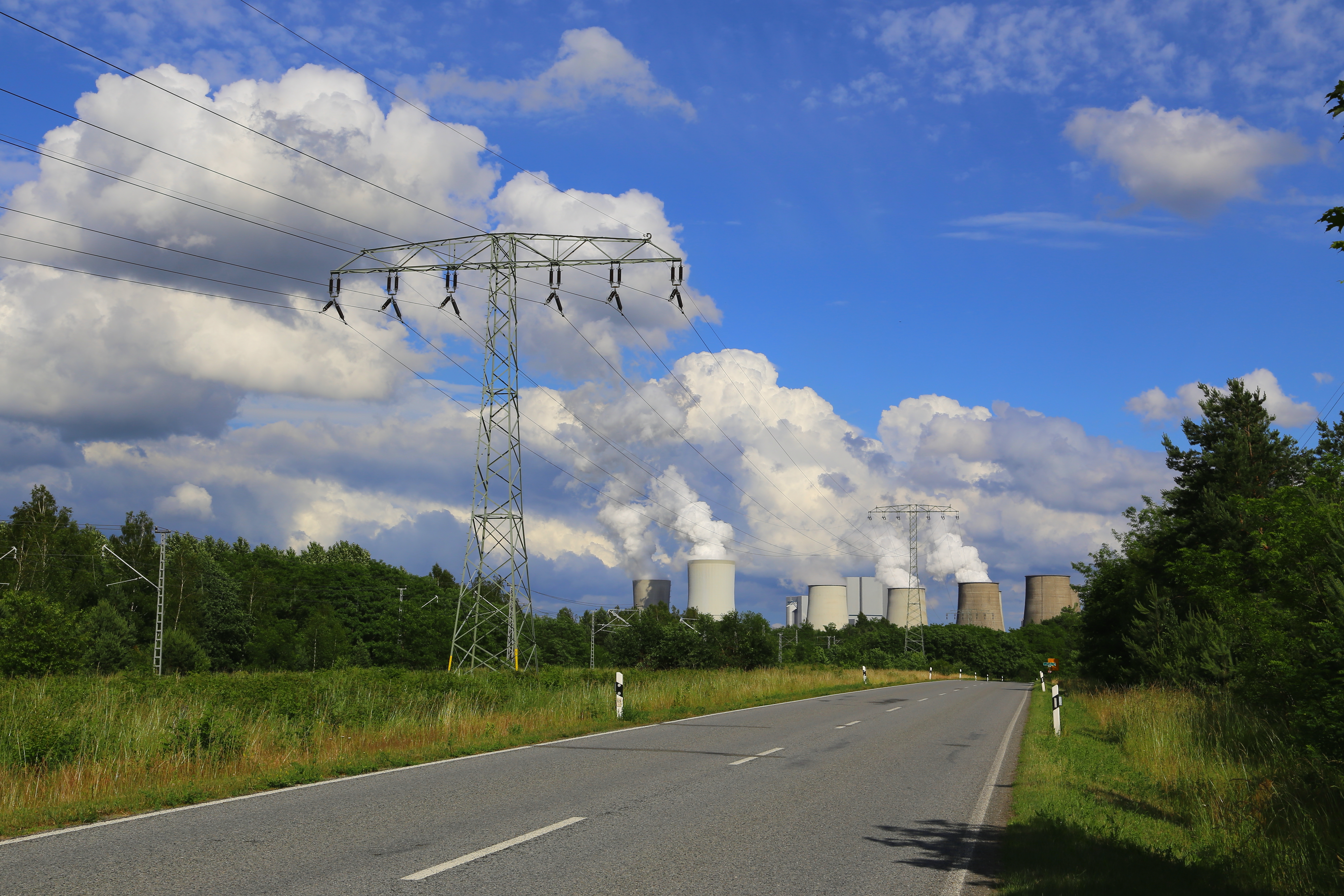 Boxberg Power Plant in Boxberg/O.L., Landkreis Görlitz, Saxony, Germany.